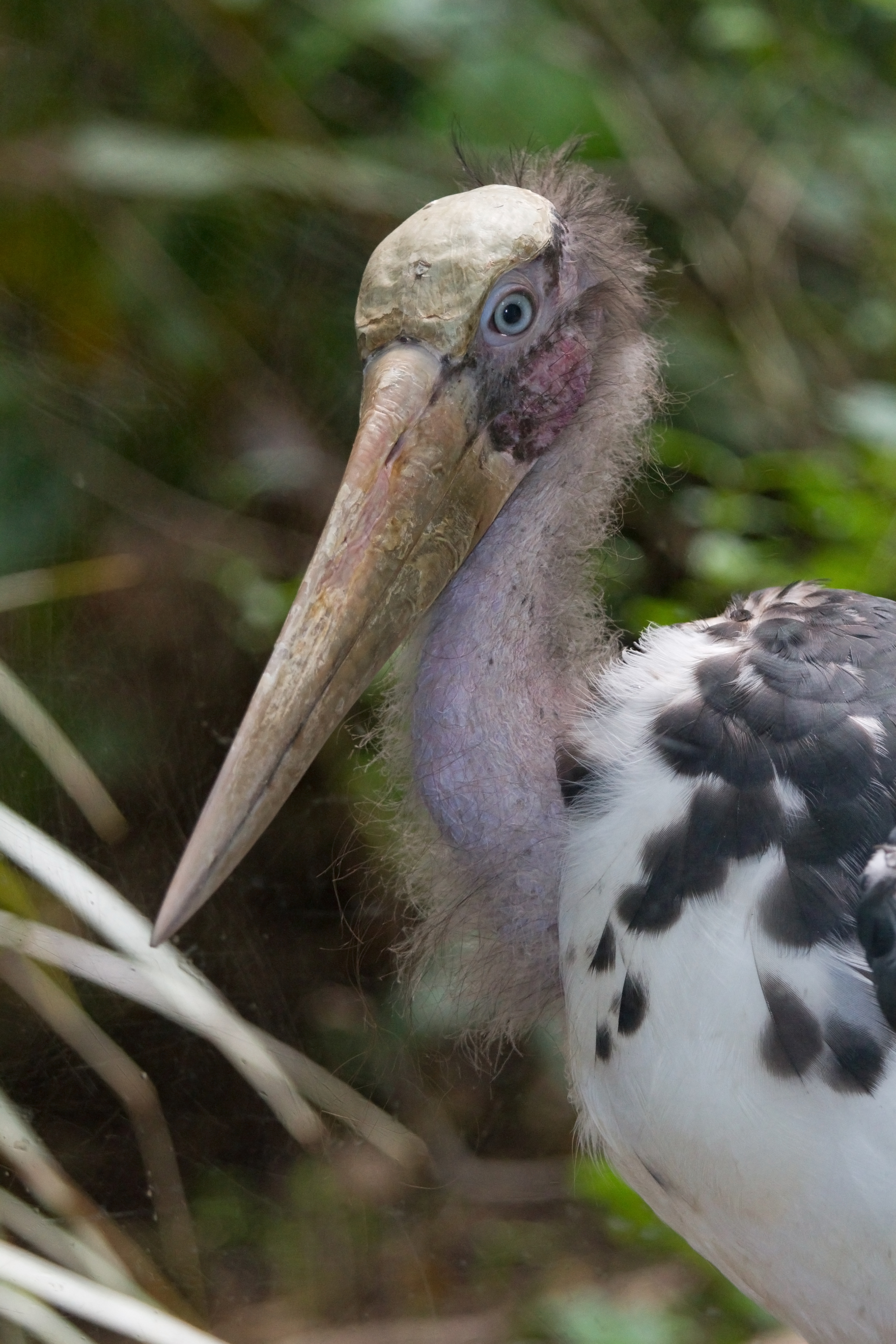 Leptoptilos javanicus (Lesser adjutant) taken at Cincinnati Zoo.